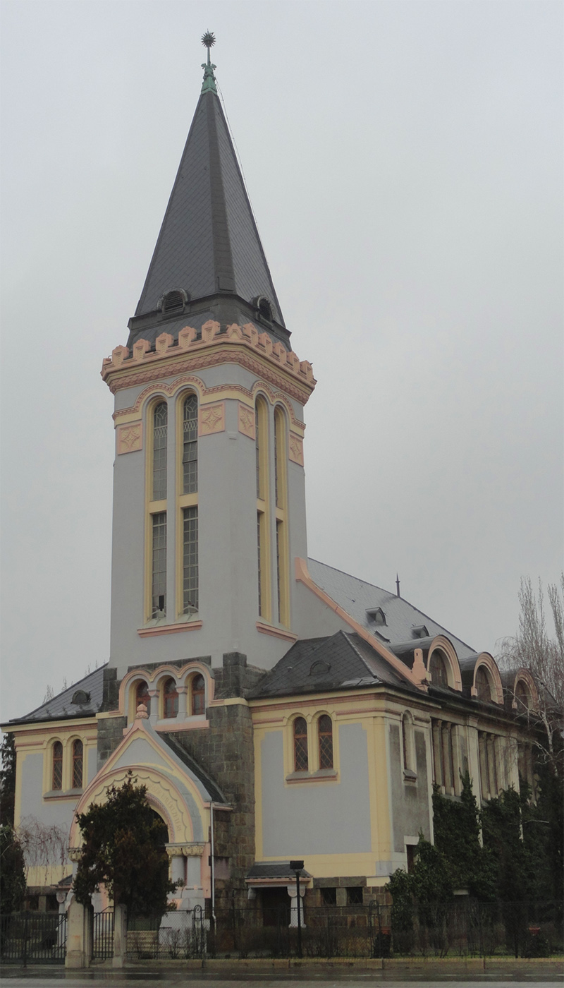 Remembrance Church - Reformed church in Budapest, 8th. district, Üllői street 90.